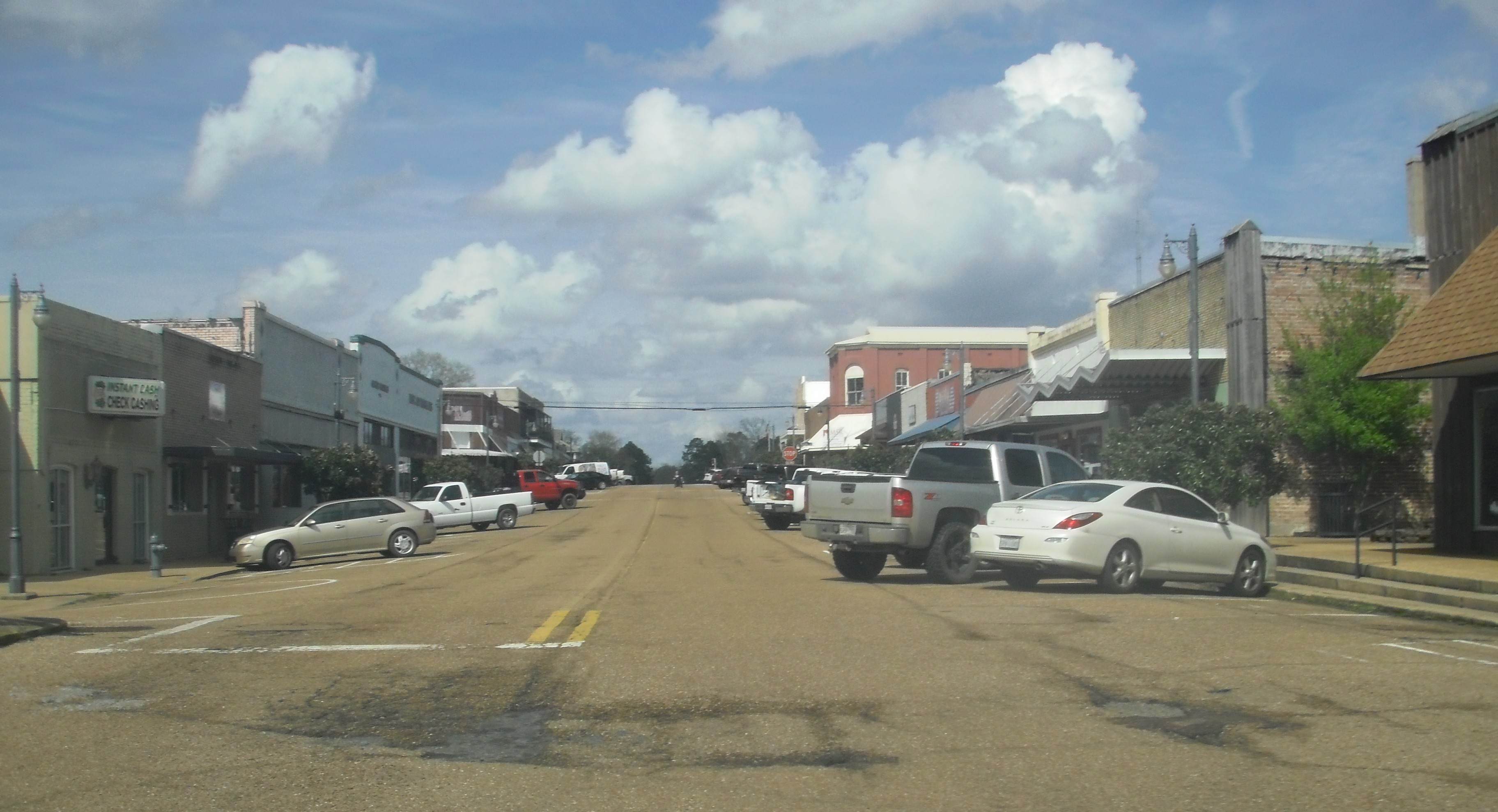 A view of downtown Magee,Mississippi